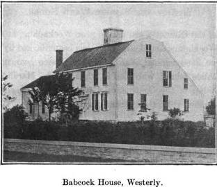 From: Rhode Island educational circulars (Rhode Island, Office of Commissioner of Education, 1908), pg.77 [1]